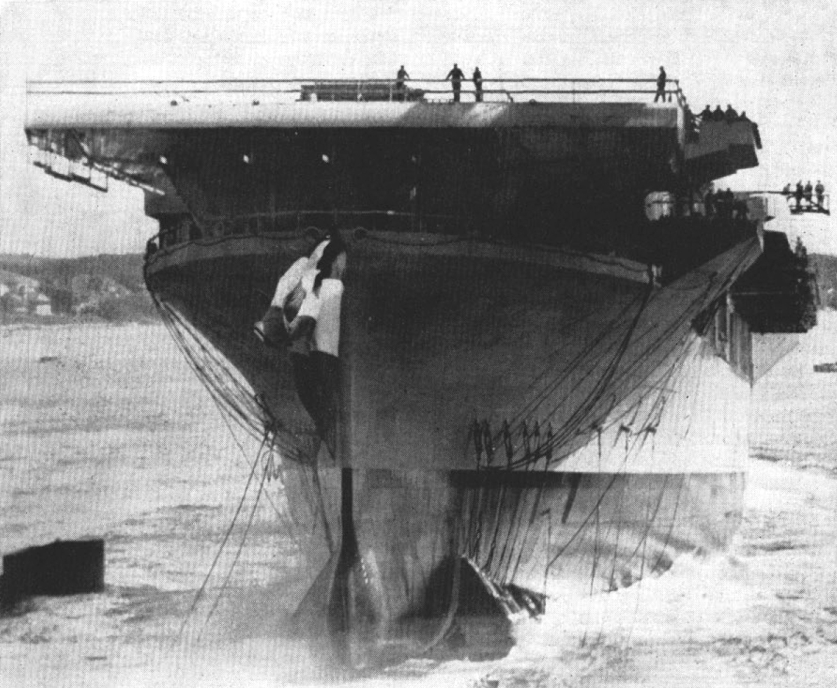 Launch of the U.S. Navy aircraft carrier USS Lexington (CV-16) at the Fore River Shipyard, Quincy, Massachusetts (USA), on 26 September 1942. The carrier was commissioned on 17 February 1943.